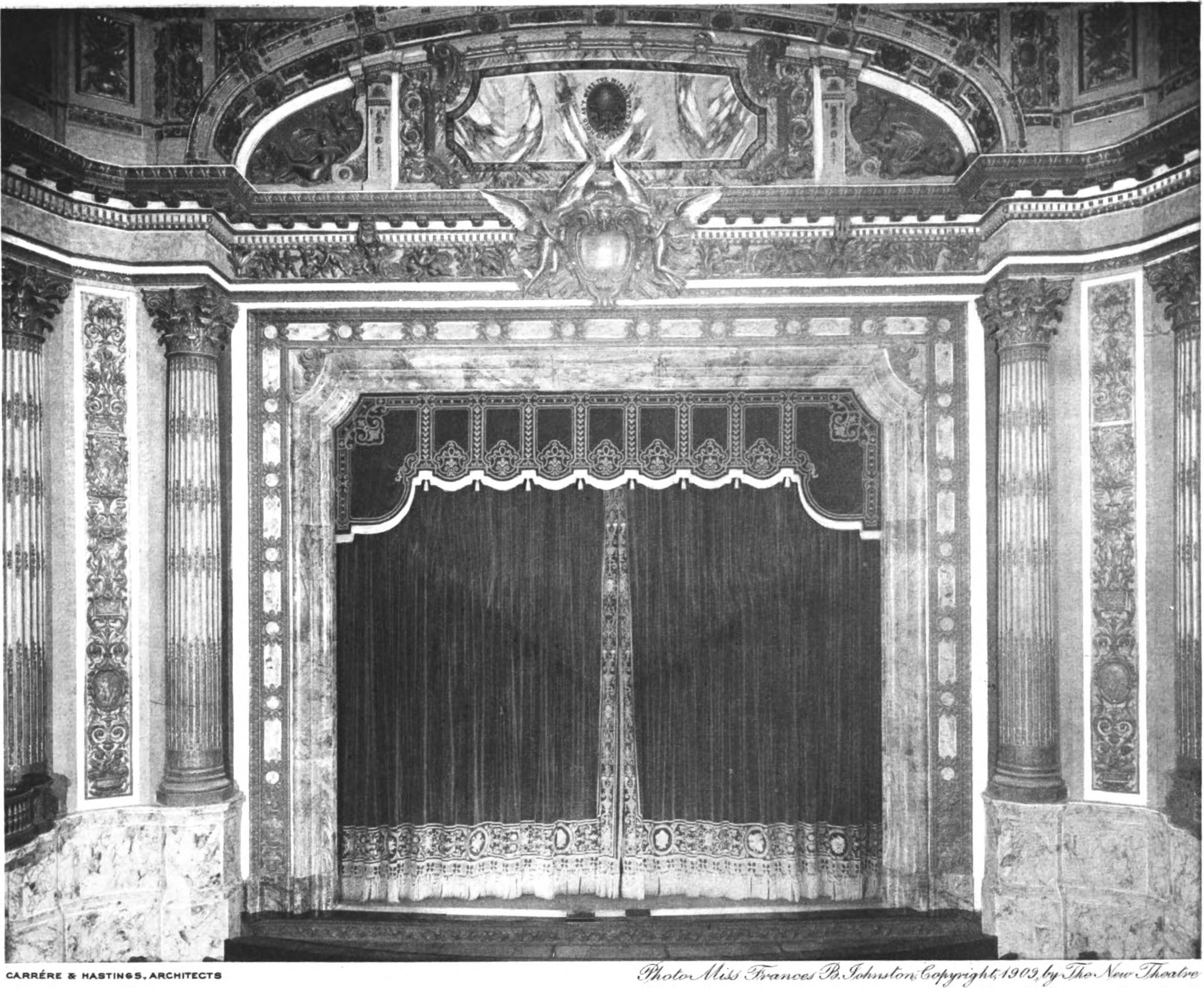 View of the stage of the New Theatre on Central Park West in New York City.